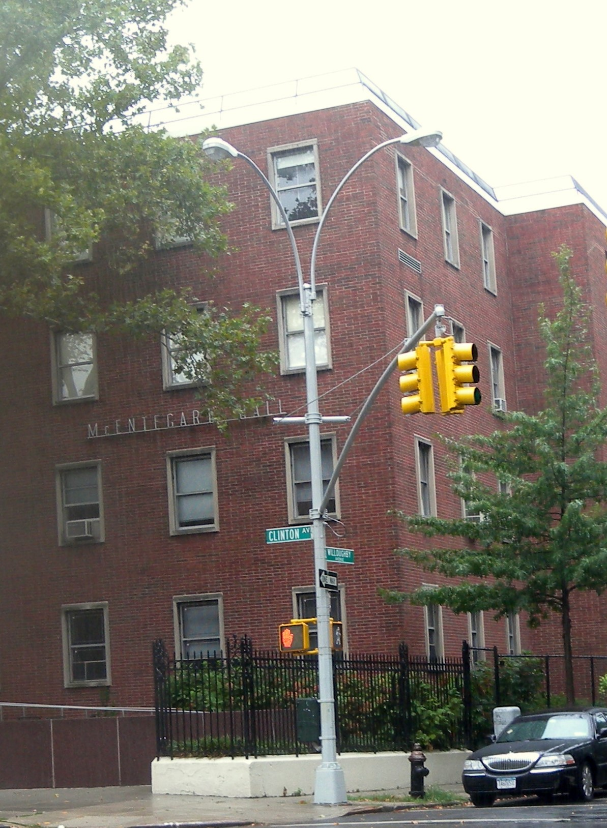 Looking southwest at McEntegart hall on a rainy afternoon. ZIP 11205.